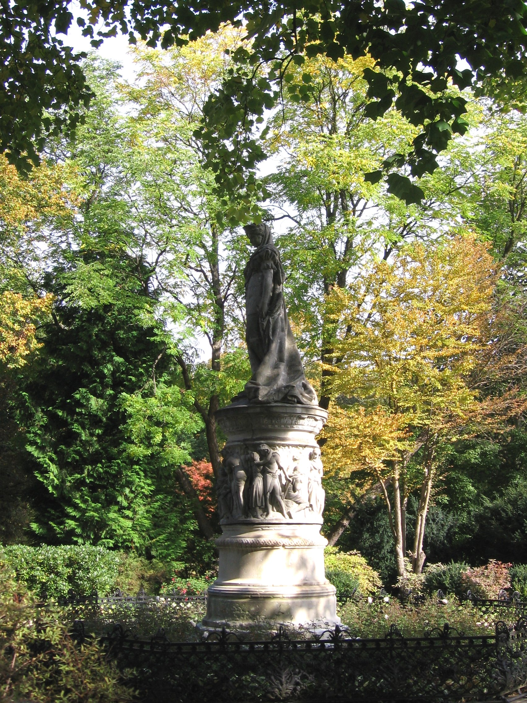 Queen Luise memorial in Berlin (Grosser Tiergarten)